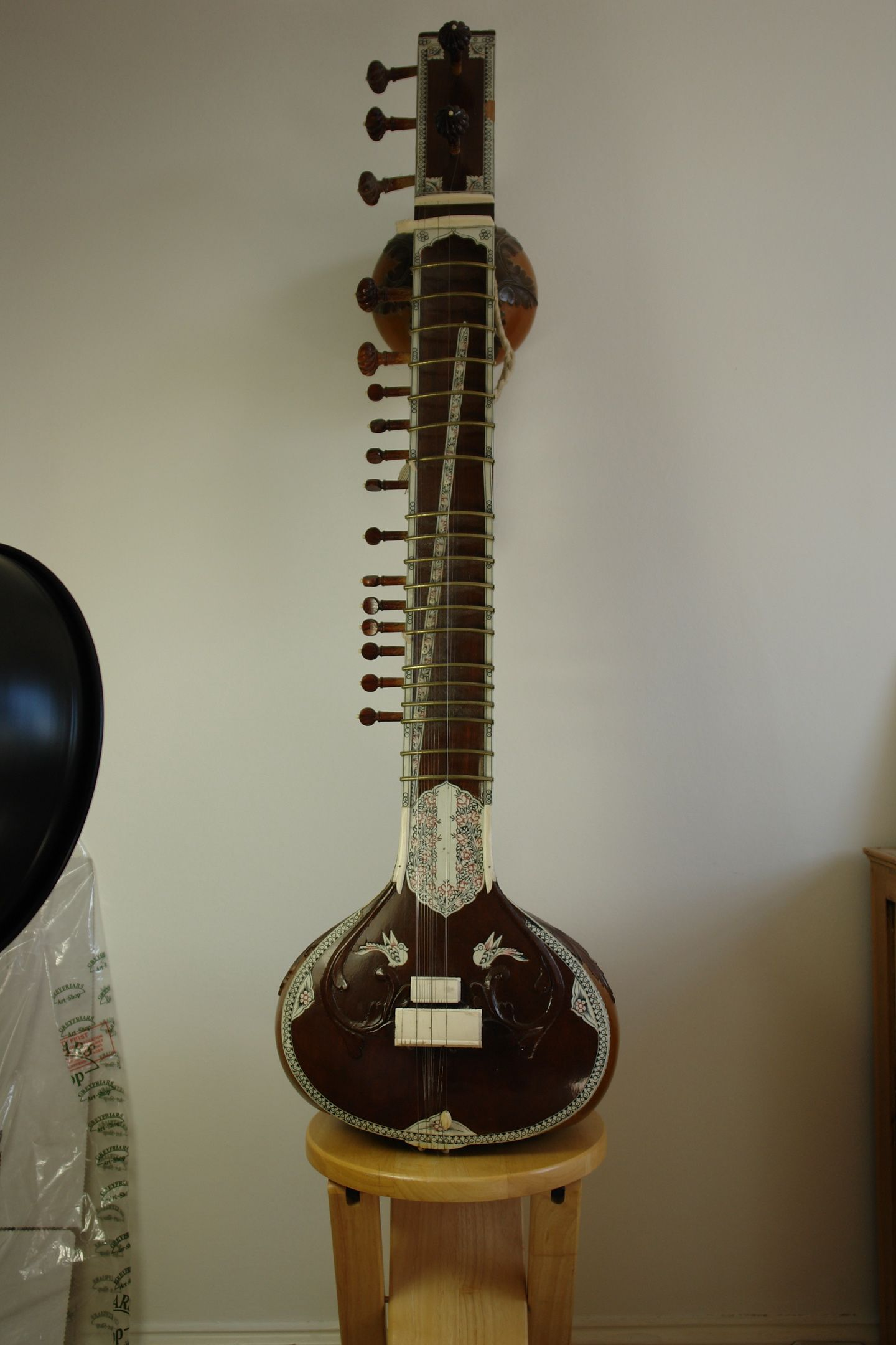 Sitar (by Jim Hutcheson)